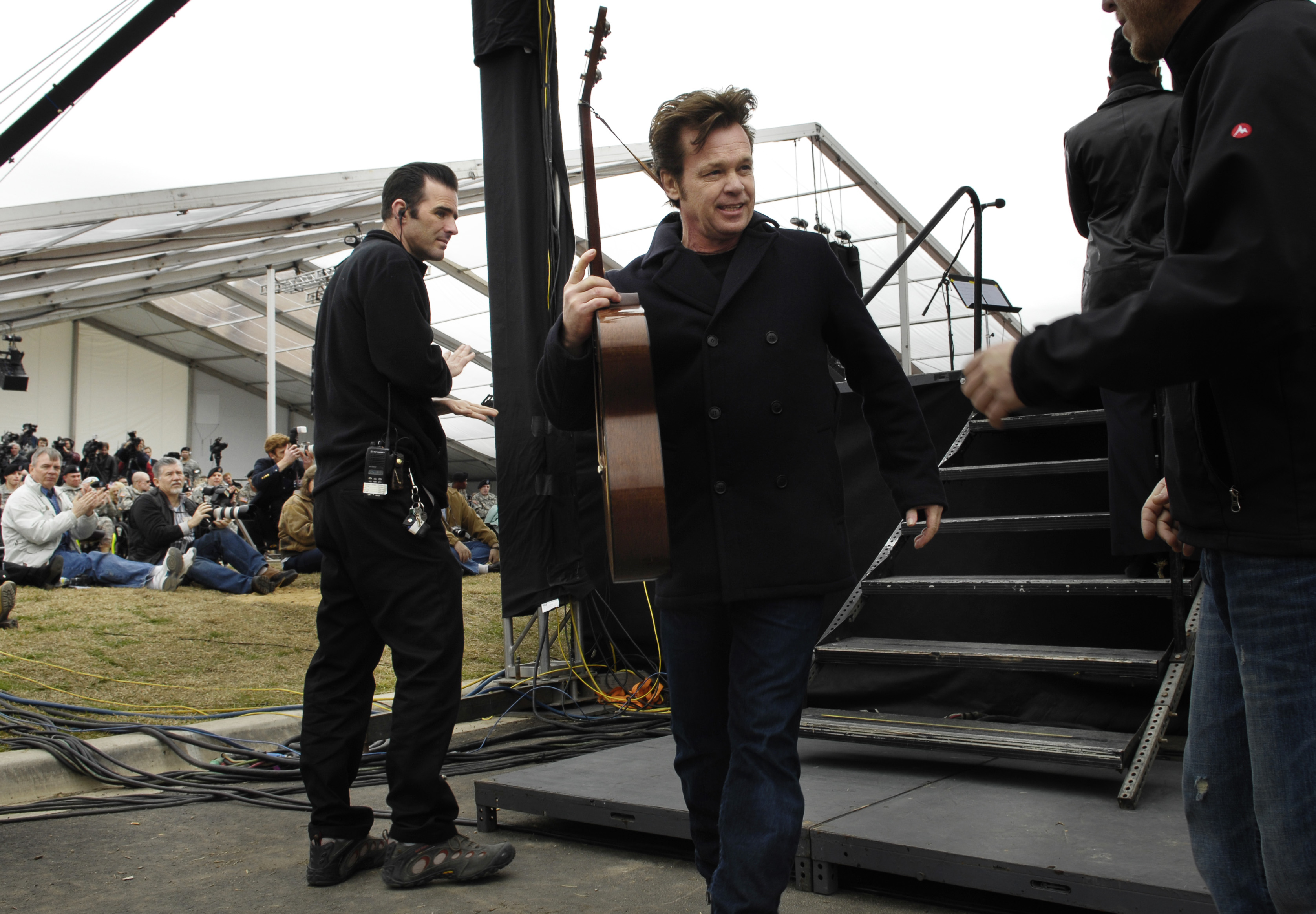 Singer-songwriter John Mellencamp leaves the stage after performing during the dedication ceremony for the Center for the Intrepid and two Fisher Houses Jan. 29, 2007, at the Brooke Army Medical Center in Fort Sam Houston, Texas. The ceremony celebrated the opening of the physical rehabilitation center and two new Fisher Houses for hospitalized military members' families.